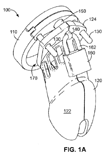 Fig. 1A of US patent US 2010/0147316 A1 for a male chastity device from the CB series from A.L. Enterprises